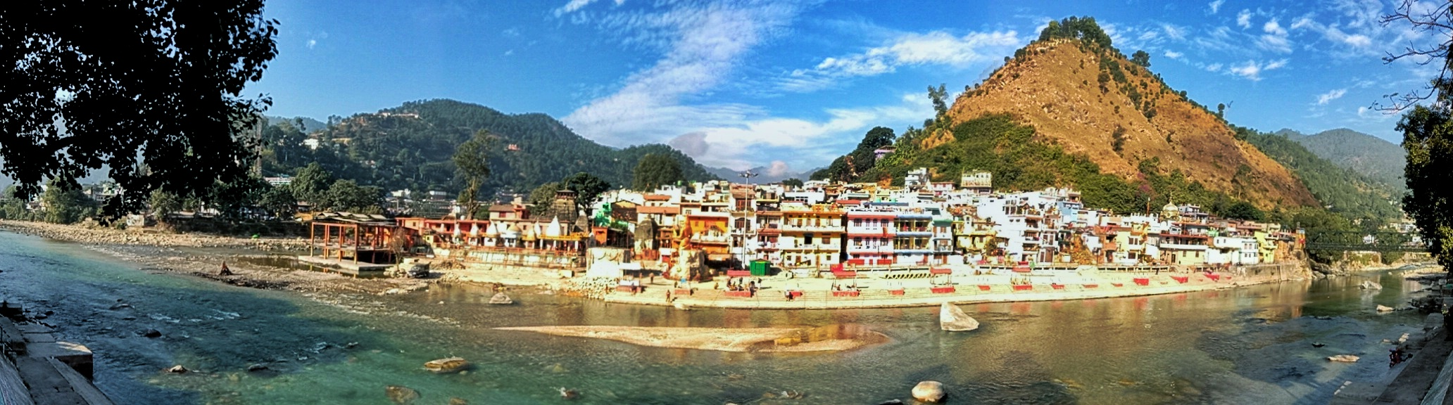 Bageshwar Panorama